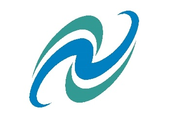 Flag of Nihonmatsu Fukushima